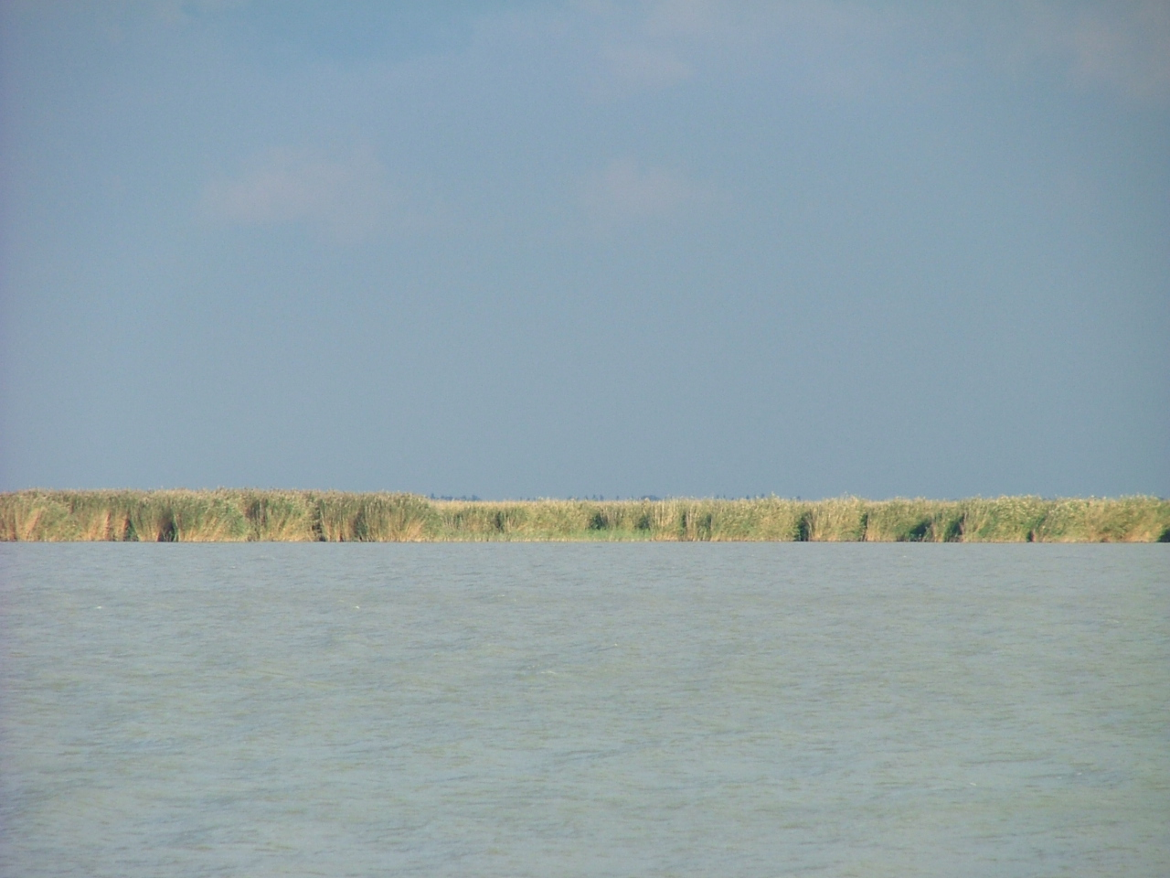 The Fertő in Fertőrákos